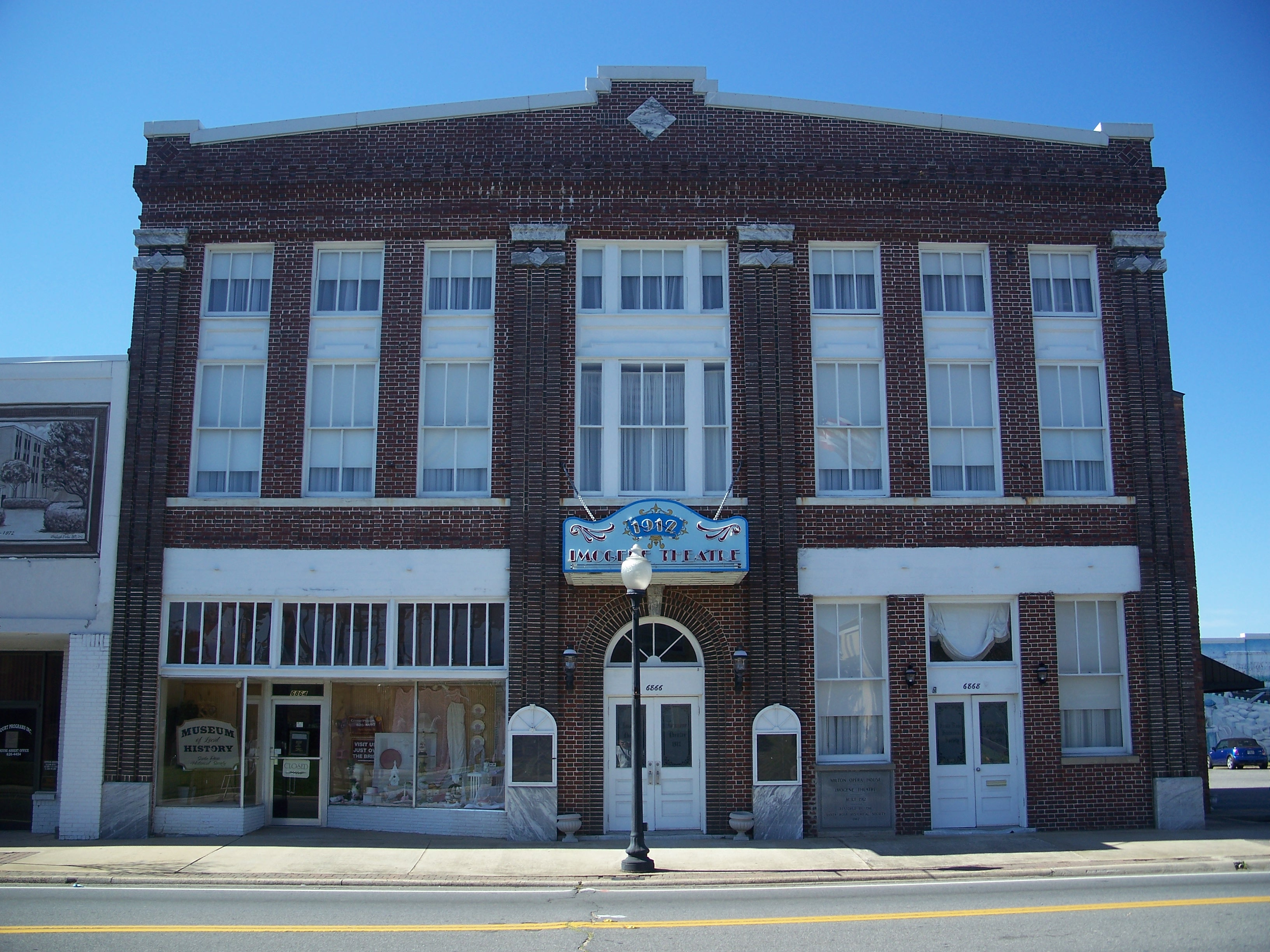 Milton, Florida: Milton Historic District: The old Milton Opera House-Imogene Theatre. Now houses a local history museum.